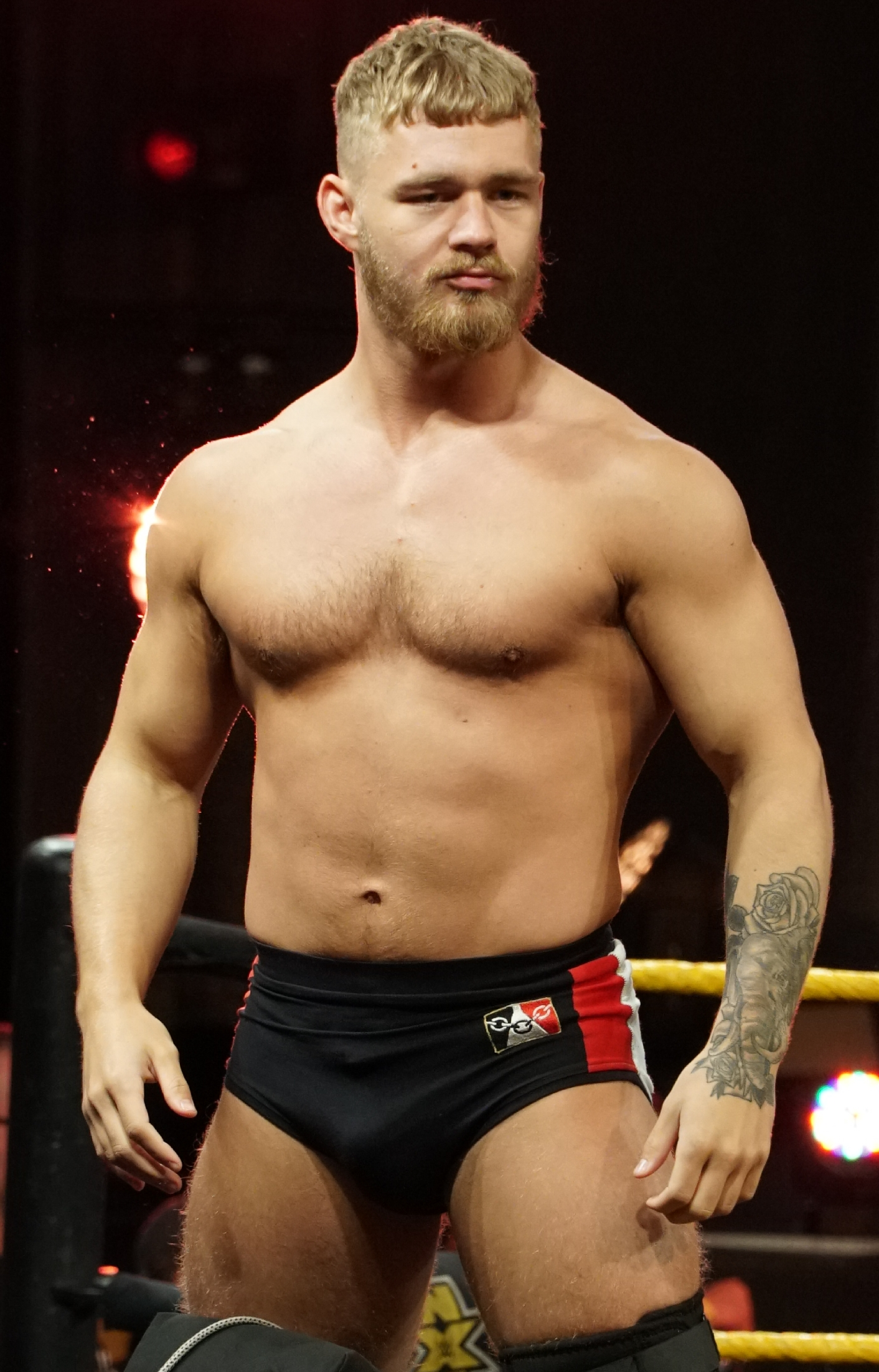 NOLA 2018 - WWE Axxess - Saturday - Trent Seven&Tyler Bate Vs Angelo Dawkins&Montez FordTrent Seven&Tyler Bate def. Angelo Dawkins&Montez Ford( Deux semaines a Nola pour la ville et pour WWE Wrestlemania XXXIVTwo weeks Nola for the city and for WWE Wrestlemania XXXIV )